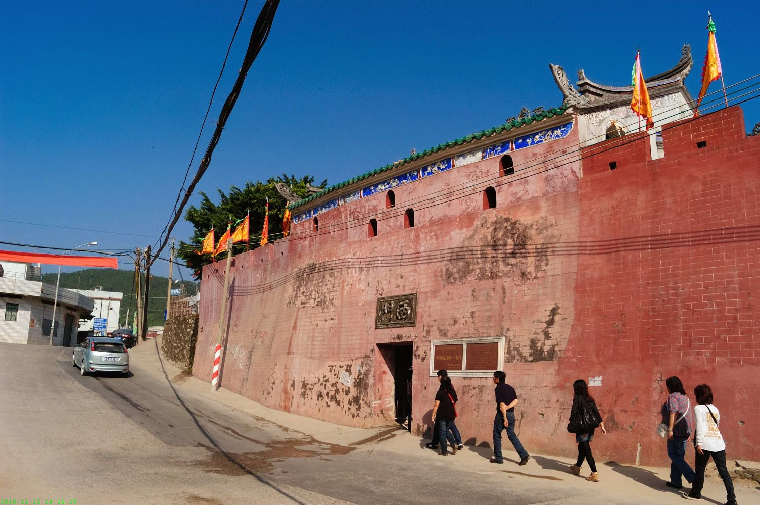 China, Hui Dong, Ping Hai old town, West gate.